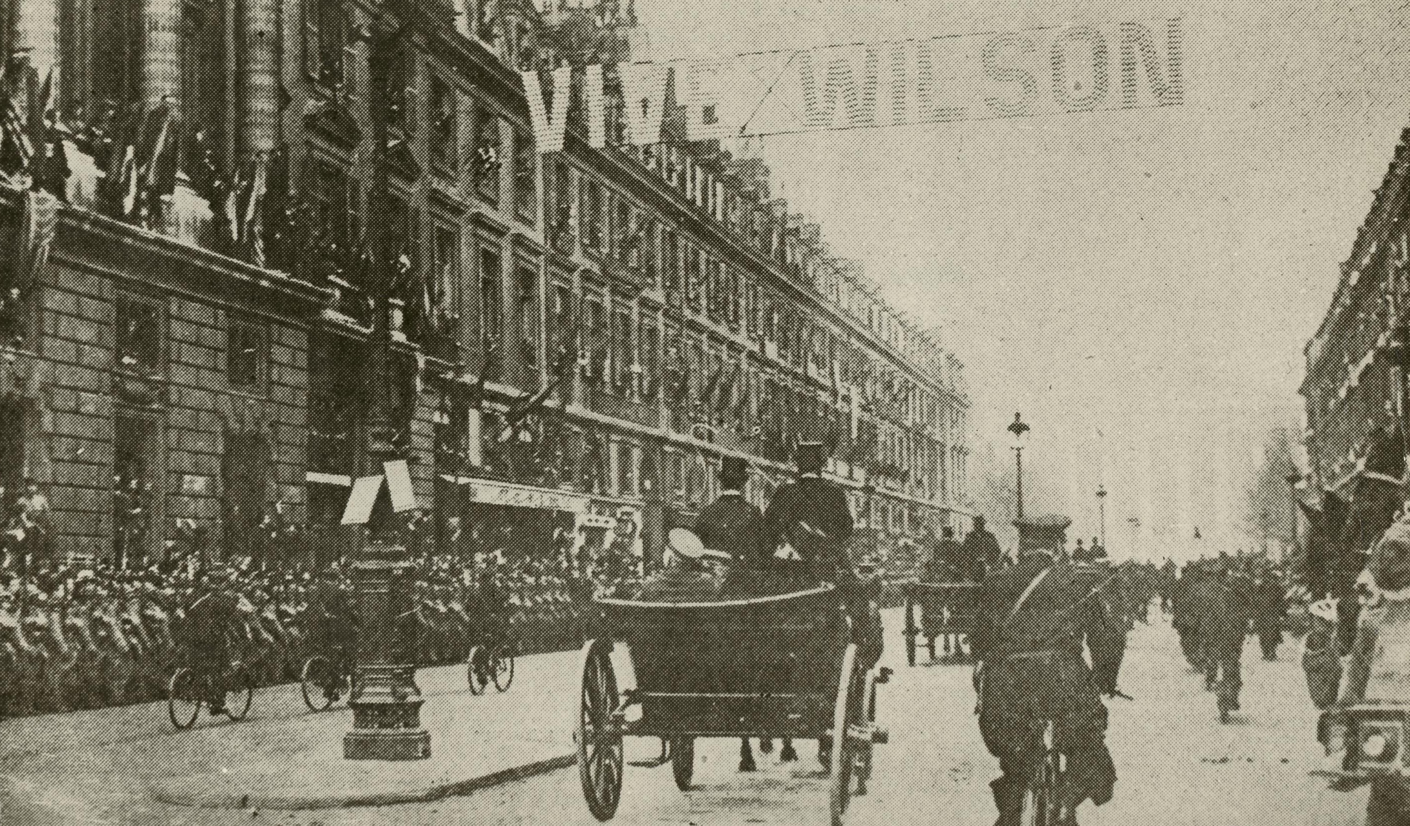 Local Accession Number: 171 Description: Parisians greet President Wilson on the Rue Royale. Photographer: Unknown Source: Research Library, 20th Century Fox Size: 8x10 Medium: Print, Black and White Date: 1918